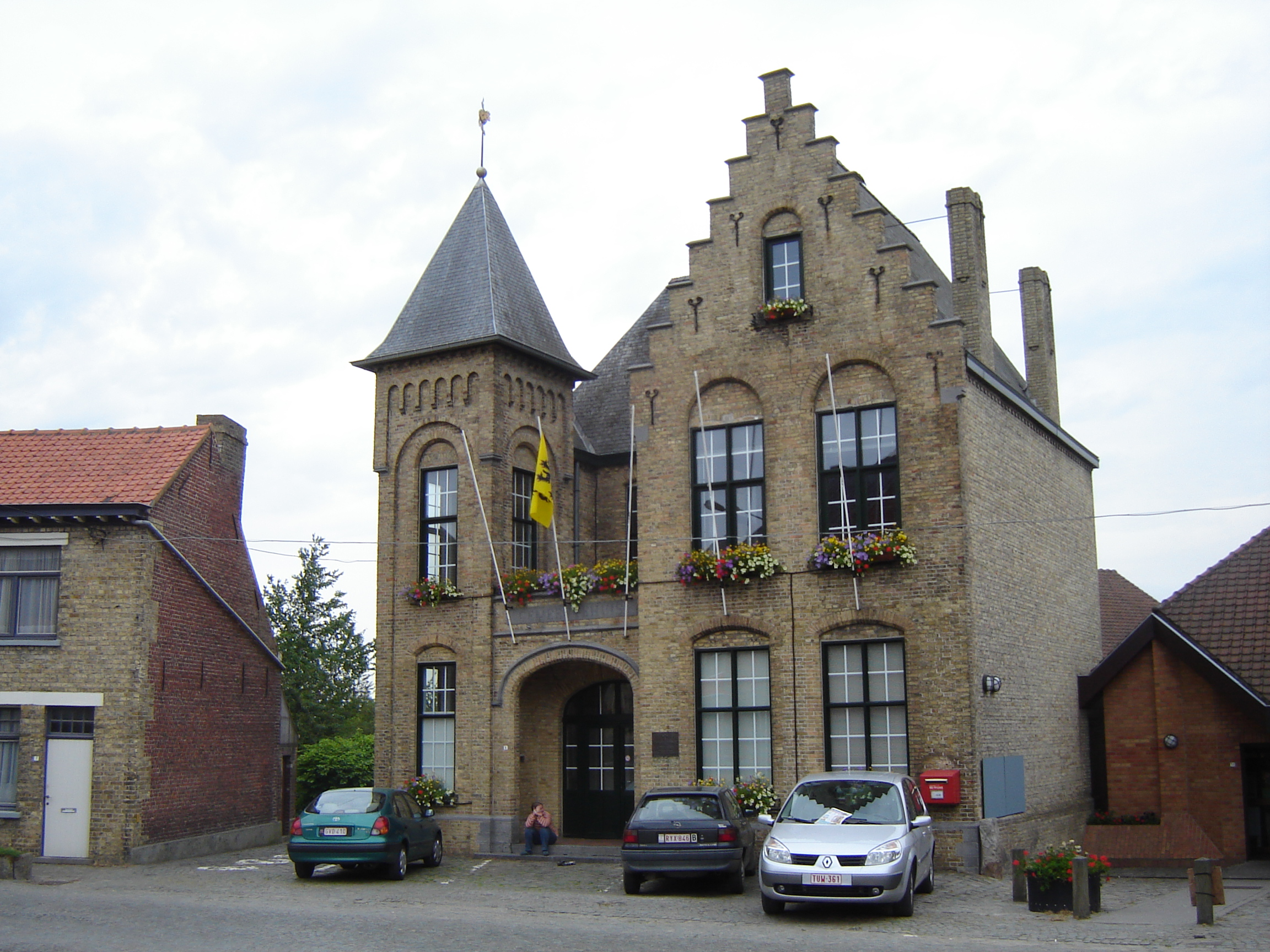 Former town hall of Westouter, Heuvelland, West Flanders, Belgium.